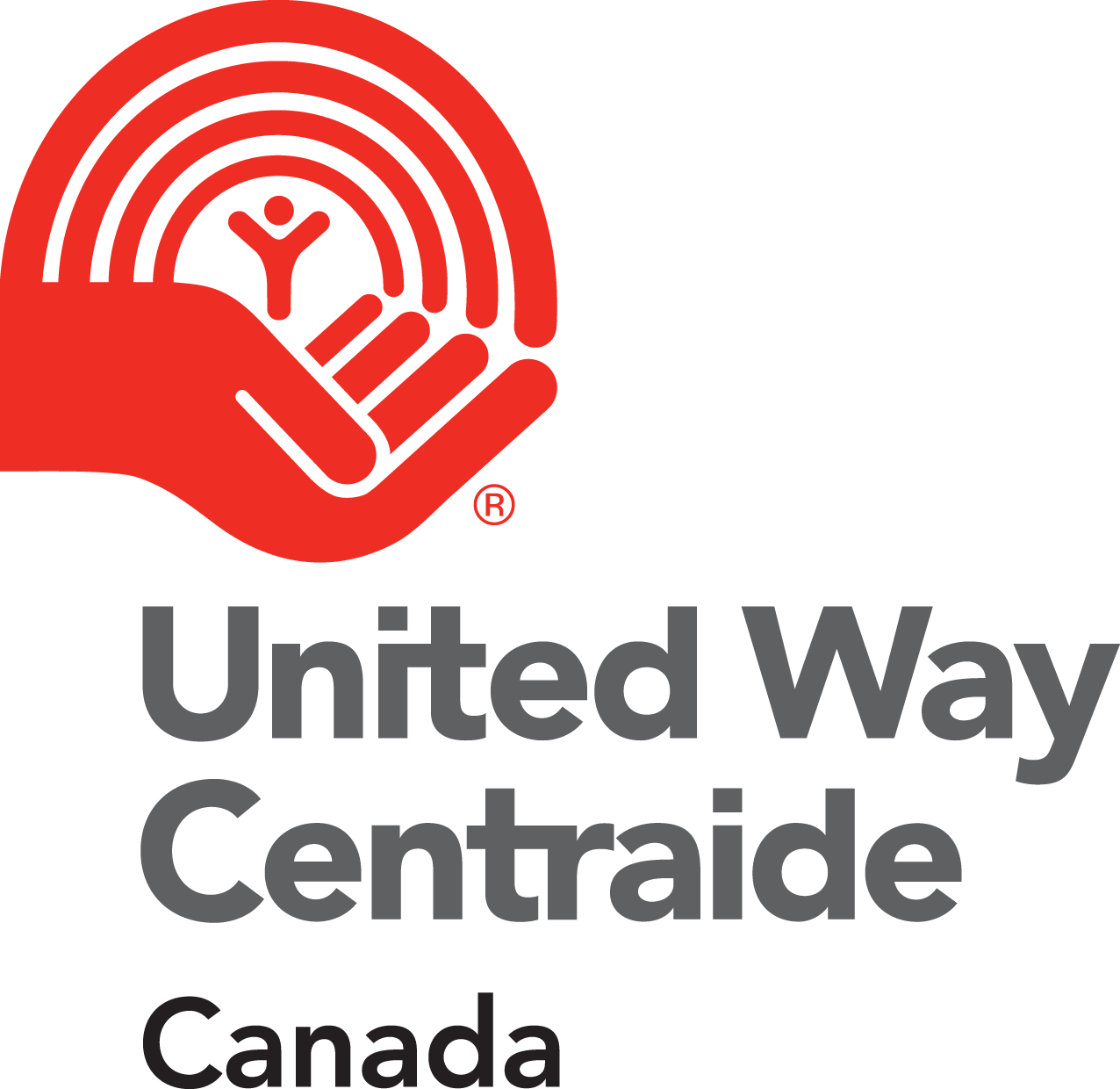 United Way Centraide Canada vertical logo